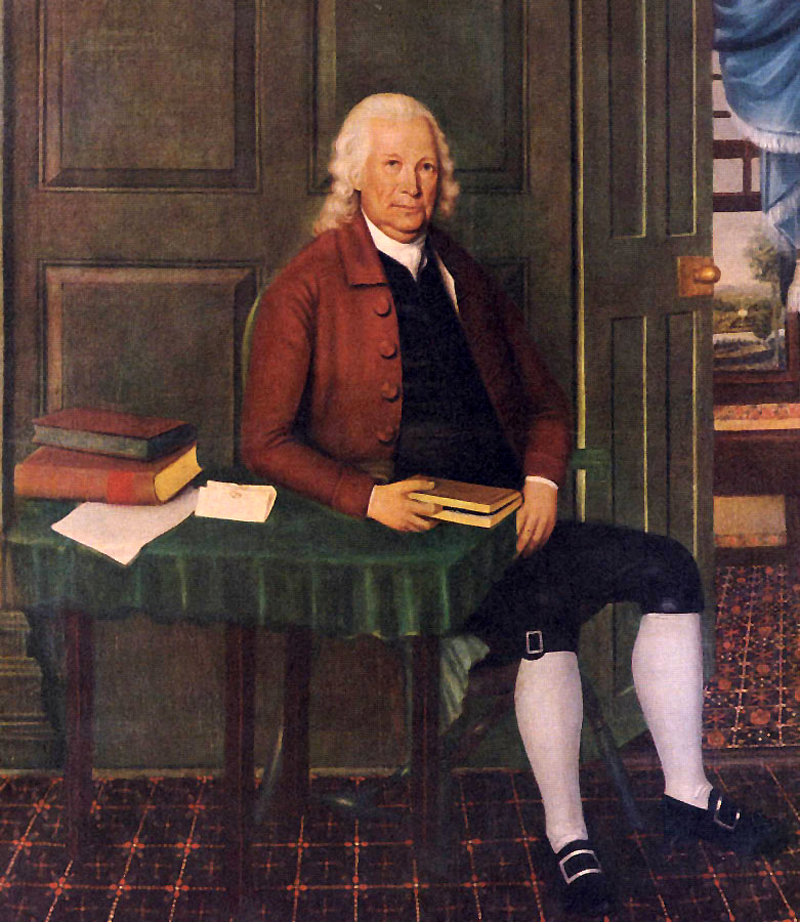 John Phillips (1719-1795), founder of Phillips Exeter Academy, Exeter, New Hampshire.